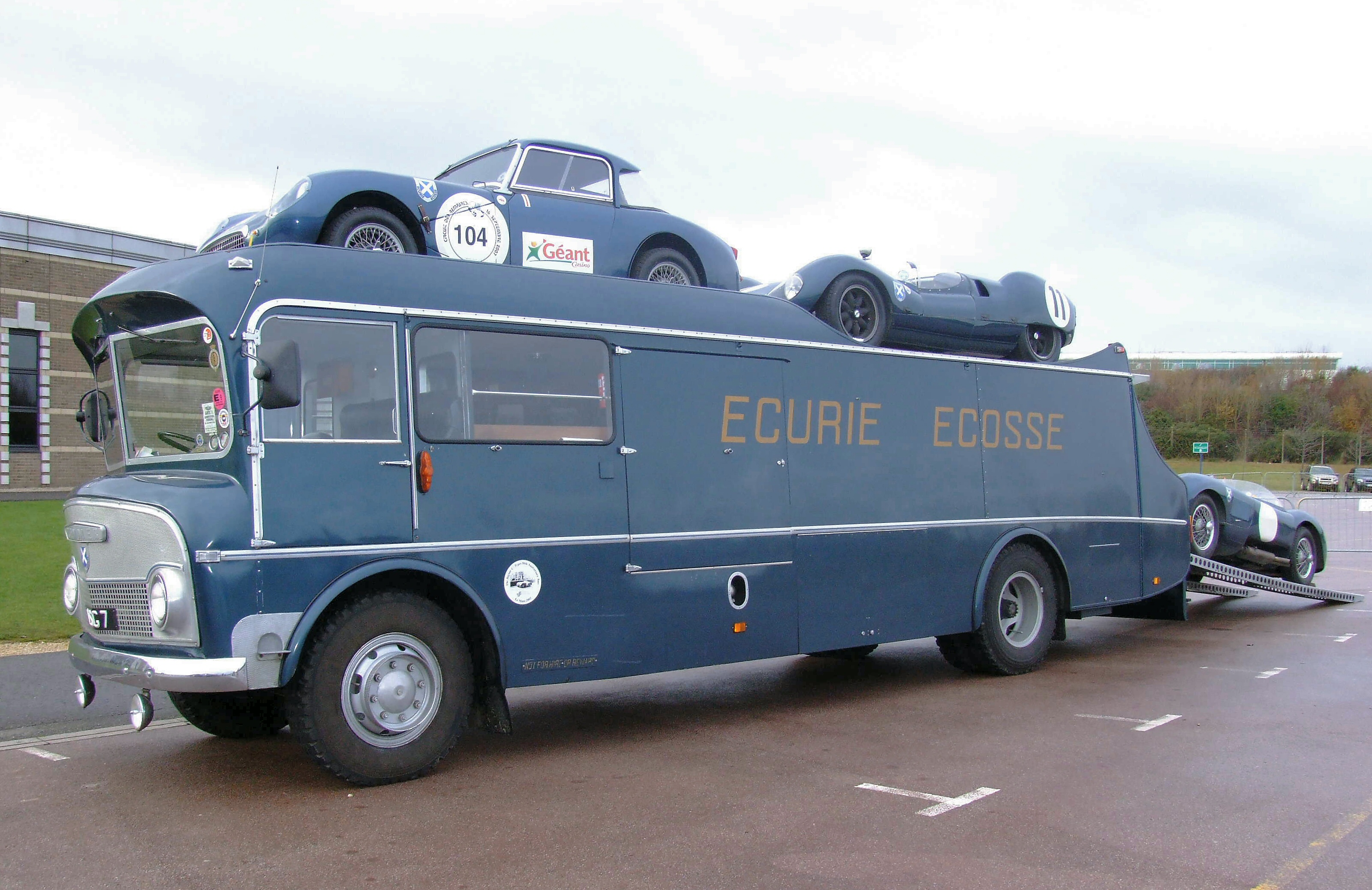 Heritage Car Museum, Gaydon, UK Ecurie Ecosse Car Transporter